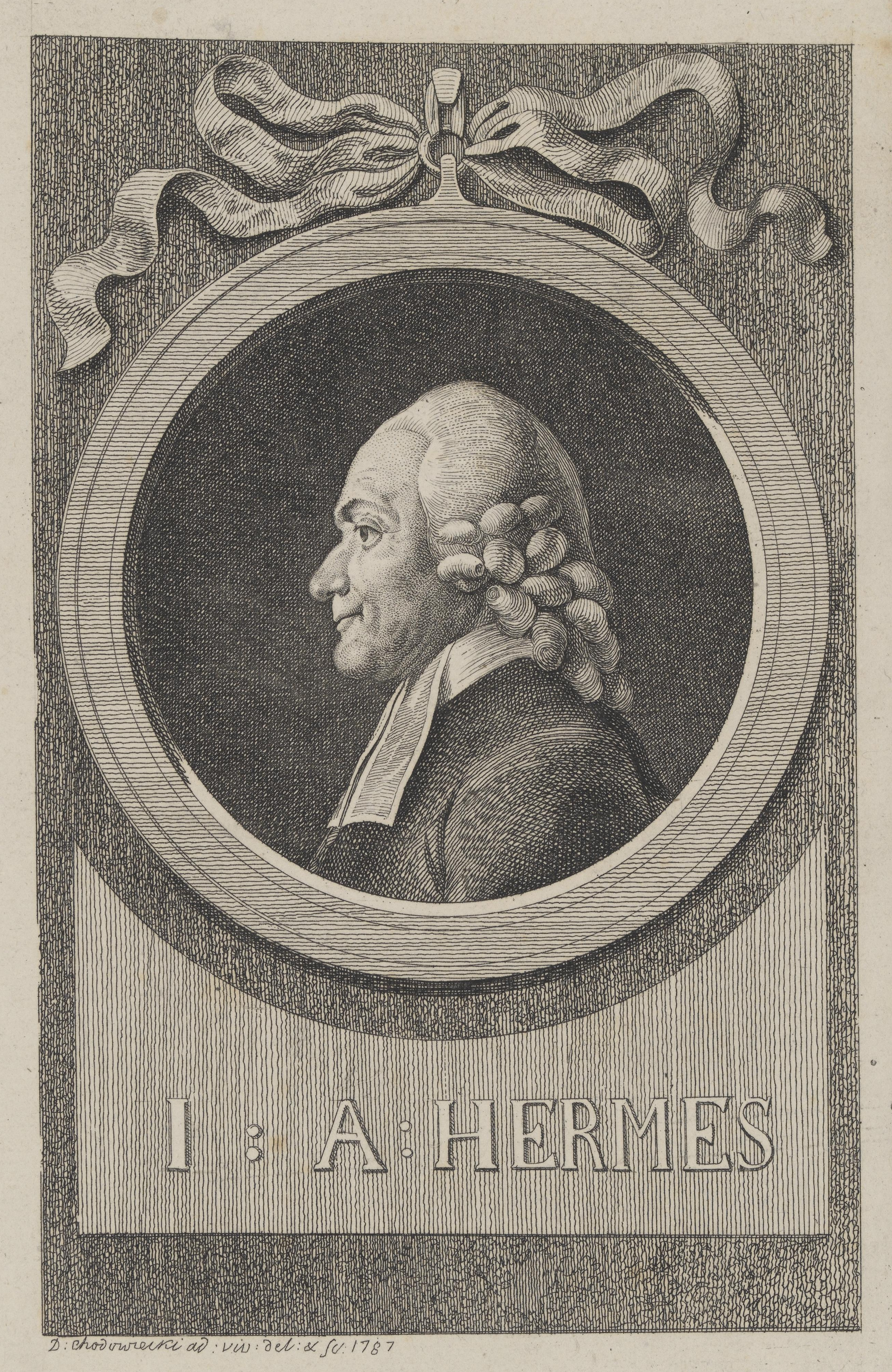 Depicted person: Johann Timotheus Hermes